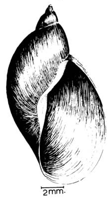 Drawing of apertural view of the shell of Radix natalensis.